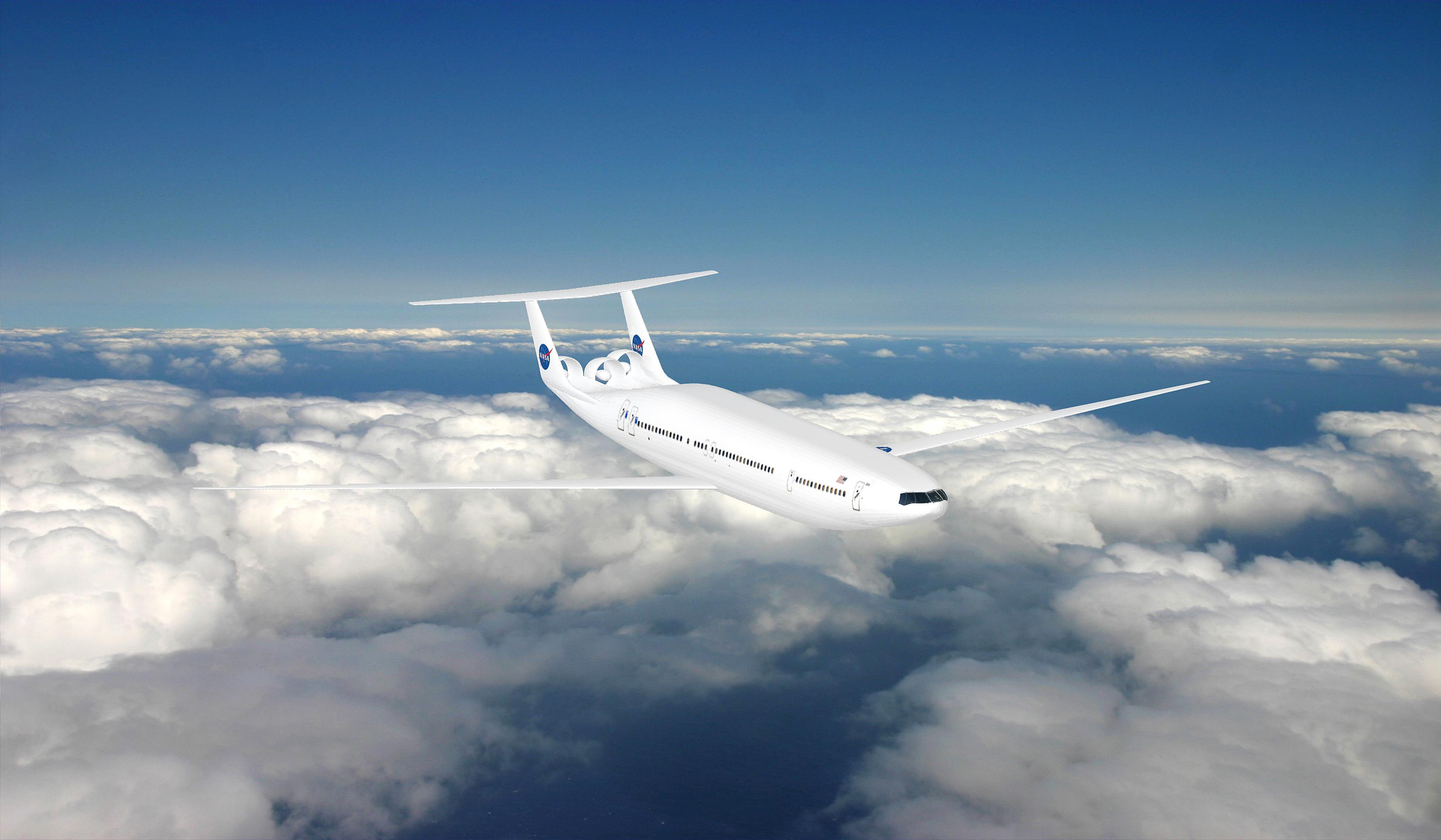 The "double bubble" D8 Series future aircraft design concept comes from the research team led by the Massachusetts Institute of Technology. Based on a modified tube and wing with a very wide fuselage to provide extra lift, its low sweep wing reduces drag and weight; the embedded engines sit aft of the wings. The D8 series aircraft would be used for domestic flights and is designed to fly at Mach 0.74 carrying 180 passengers 3,000 nautical miles in a coach cabin roomier than that of a Boeing 737-800. The D8 is among the designs presented in April 2010 to the NASA Aeronautics Research Mission Directorate for its NASA Research Announcement-funded studies into advanced aircraft that could enter service in the 2030-2035 timeframe.